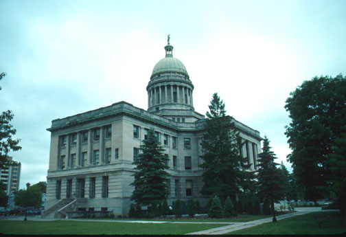 Cortland County Courthouse (Built 1922-1923), Cortland, New York This image or file is a work of a United States Department of Agriculture employee, taken or made as part of that person's official duties. As a work of the U.S. federal government, the image is in the public domain. Object location42° 35′ 56″ N, 76° 10′ 37″ W